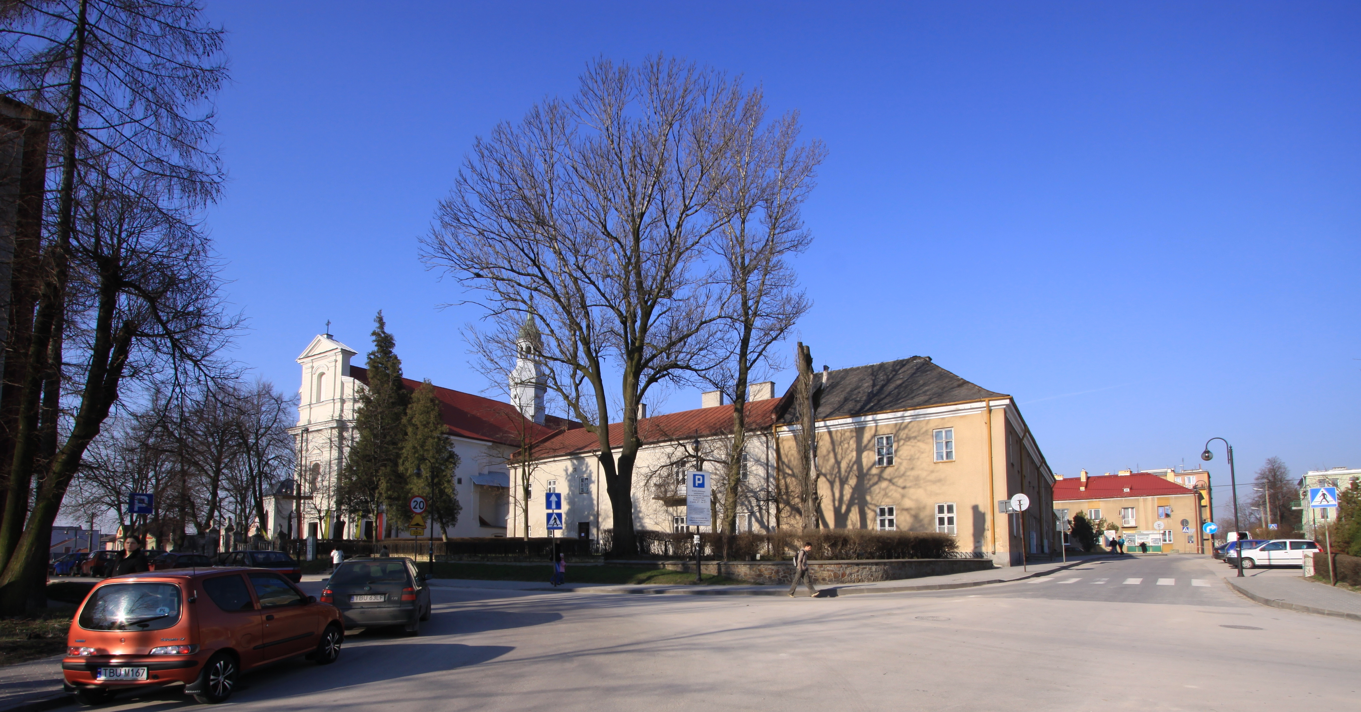 Busko-Zdrój